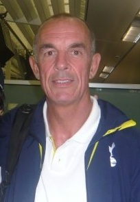 Joe Jordan